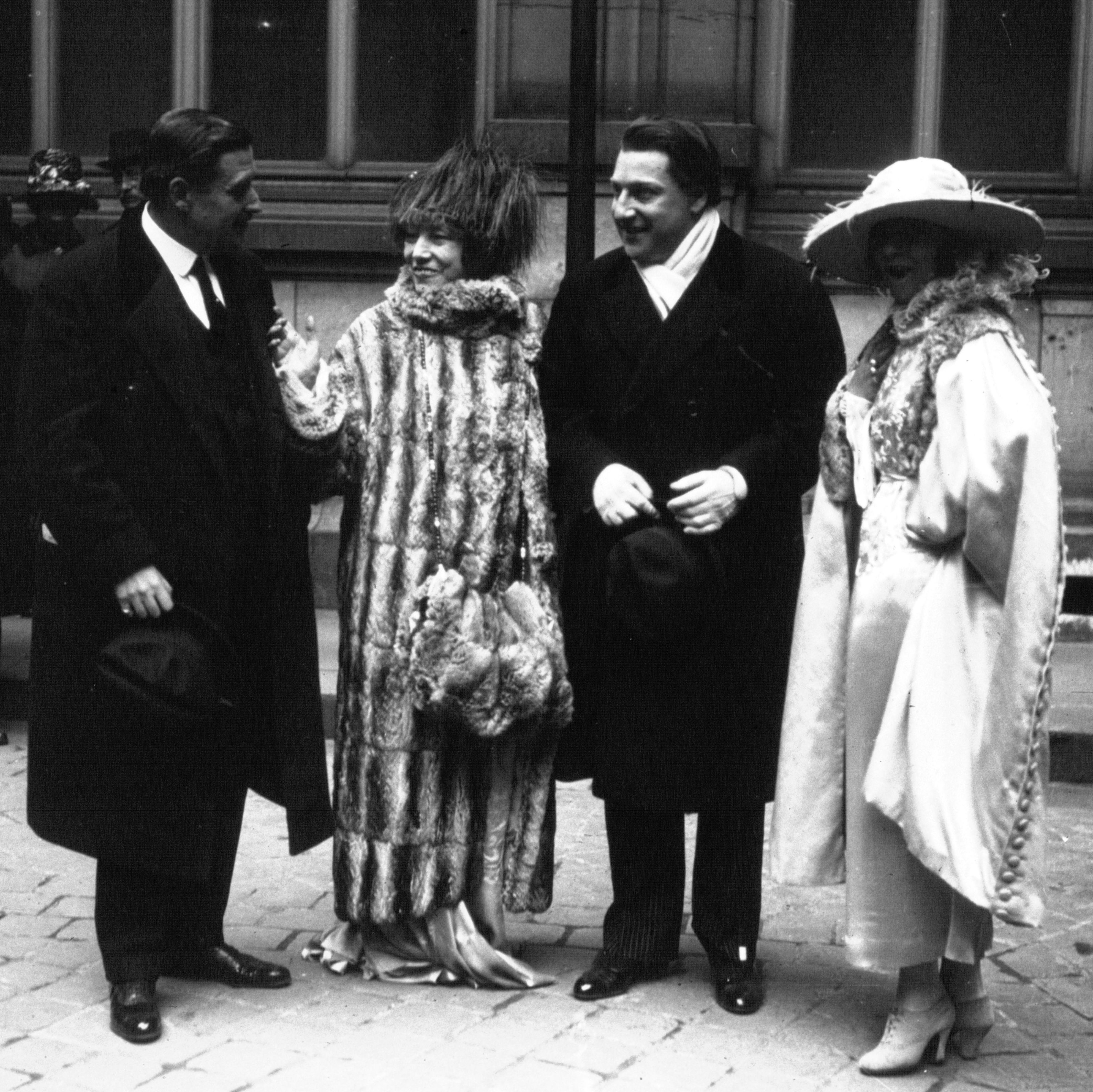 Sacha Guitry and Yvonne Printemps on their wedding day, with Sarah Bernhardt on the right.